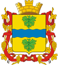 Coat of arms of Tashkent in 1909